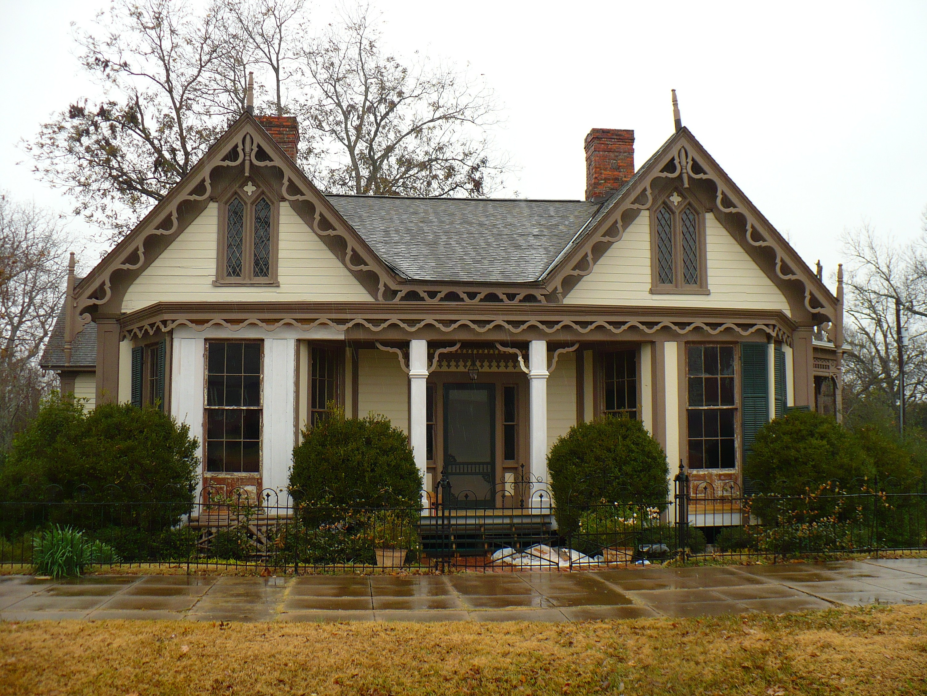 Ashe Cottage in Demopolis, Marengo County, Alabama.